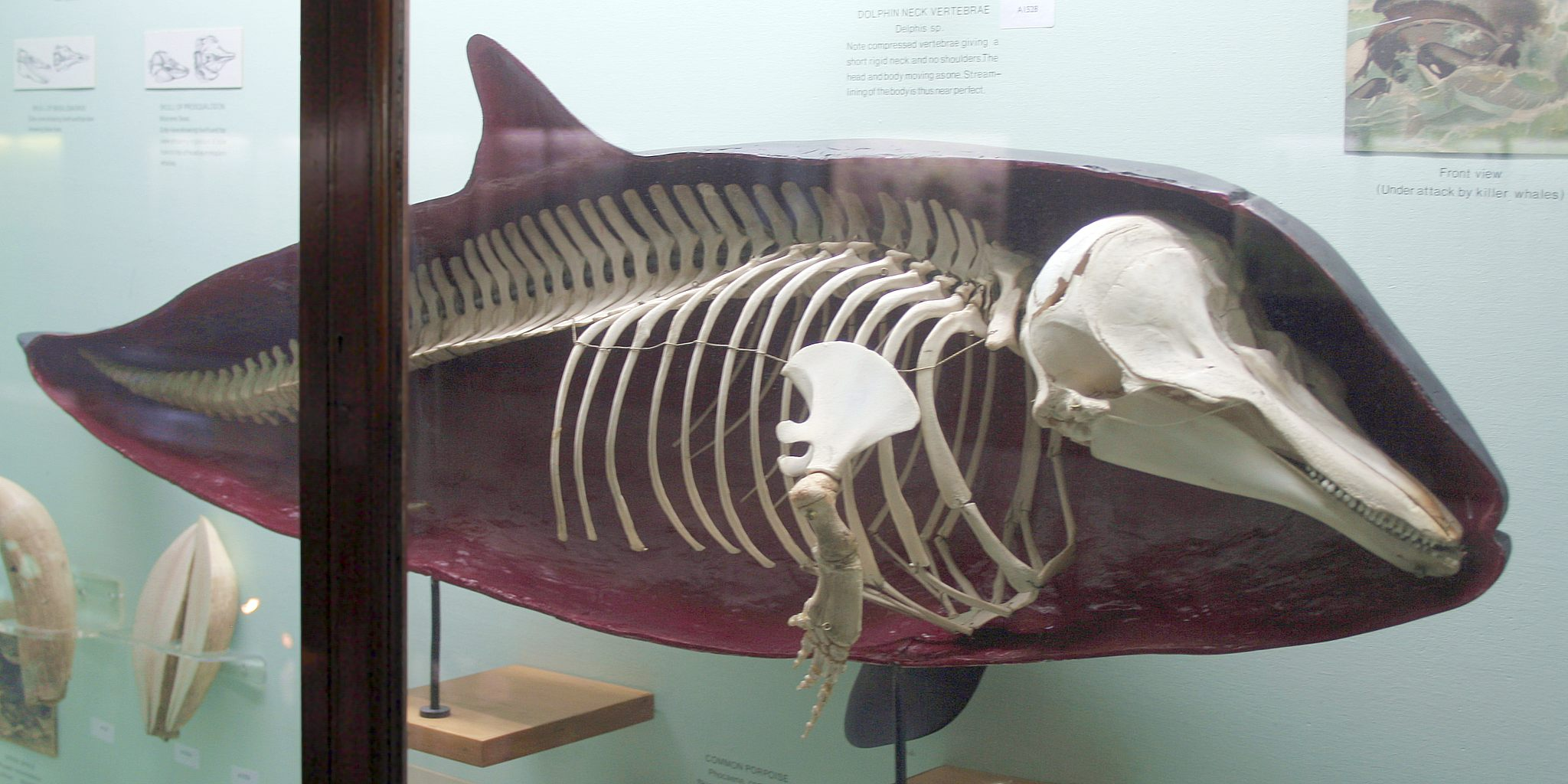 A preserved dolphin showing how the skeleton fits inside its skin, at the Horniman Museum.